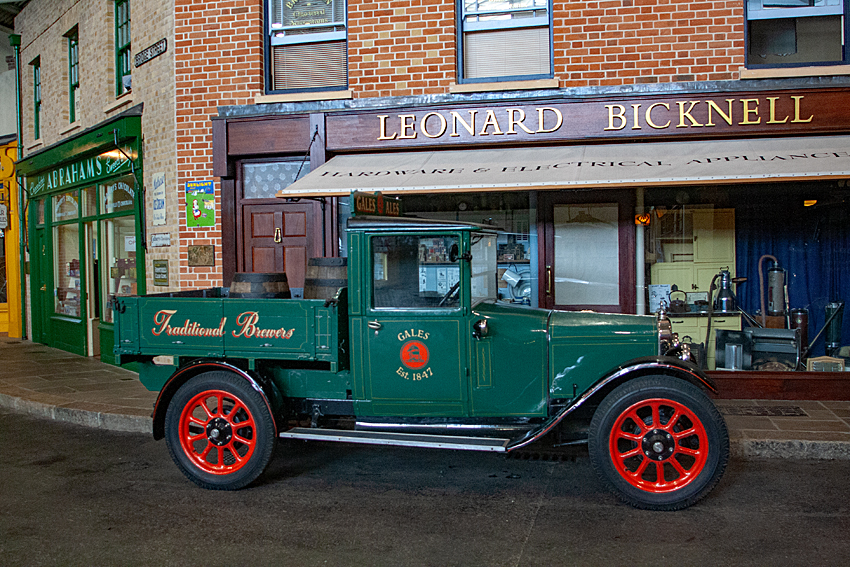 Gales Brewery 1926 Austin motor dray at the Milestones Museum in Basingstoke. Registration number YN 402.